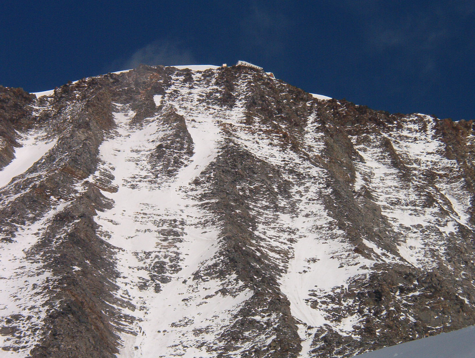 Aiguille du Gouter and Gouter Hut; Mont Blanc Massif; France